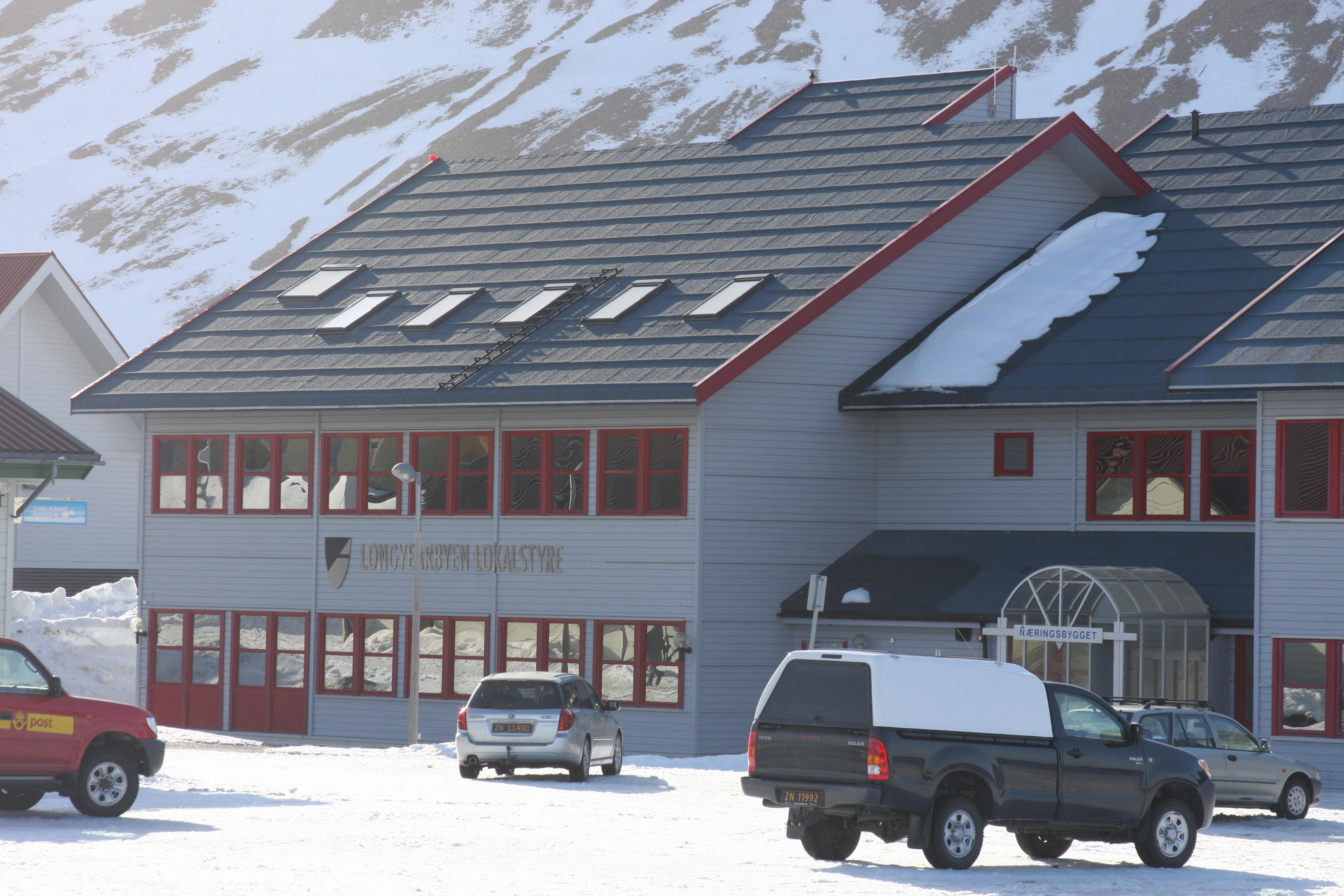 House of the Local Assembly of Longyearbyen